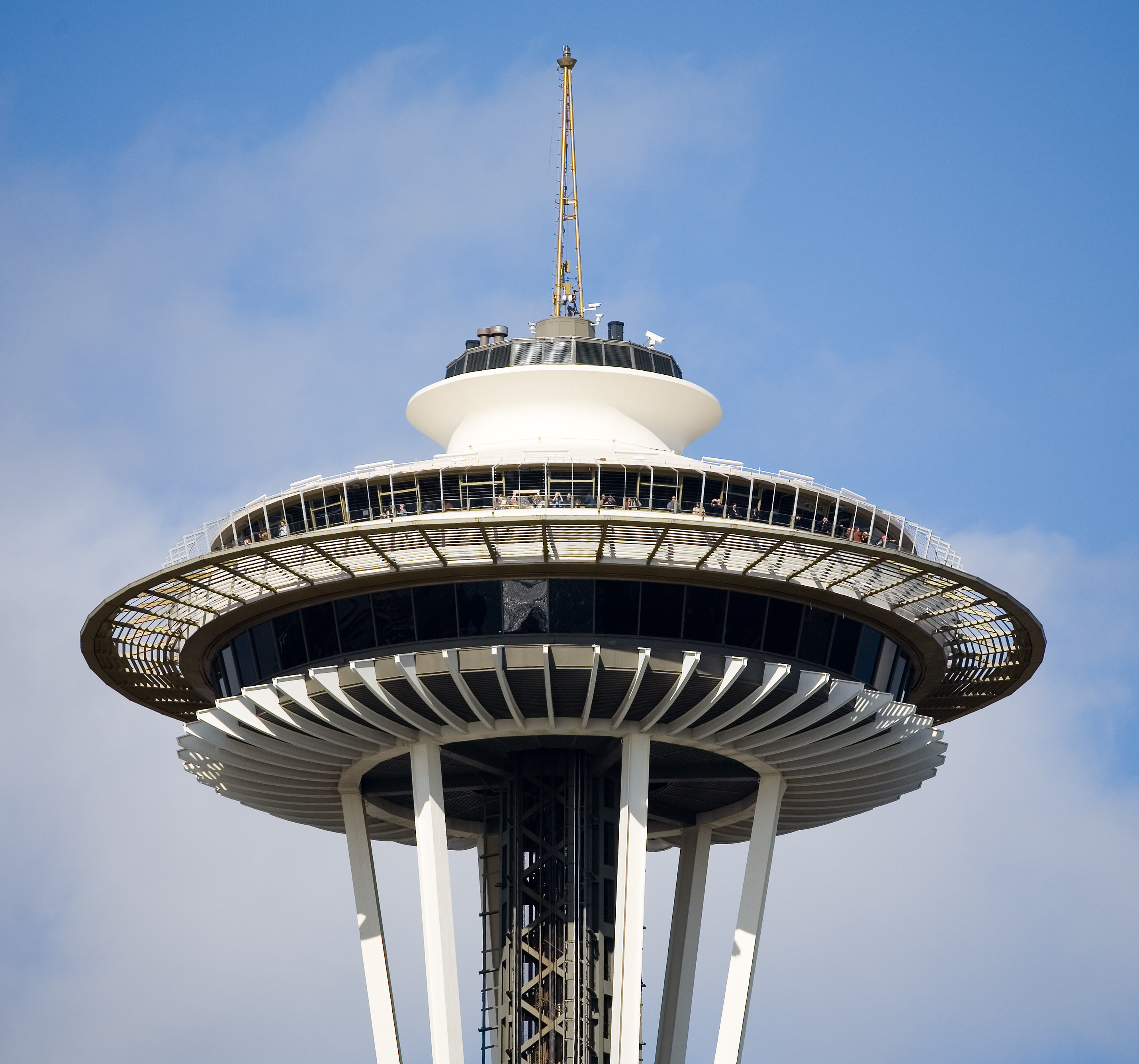 The top of the Space Needle in Seattle, Washington